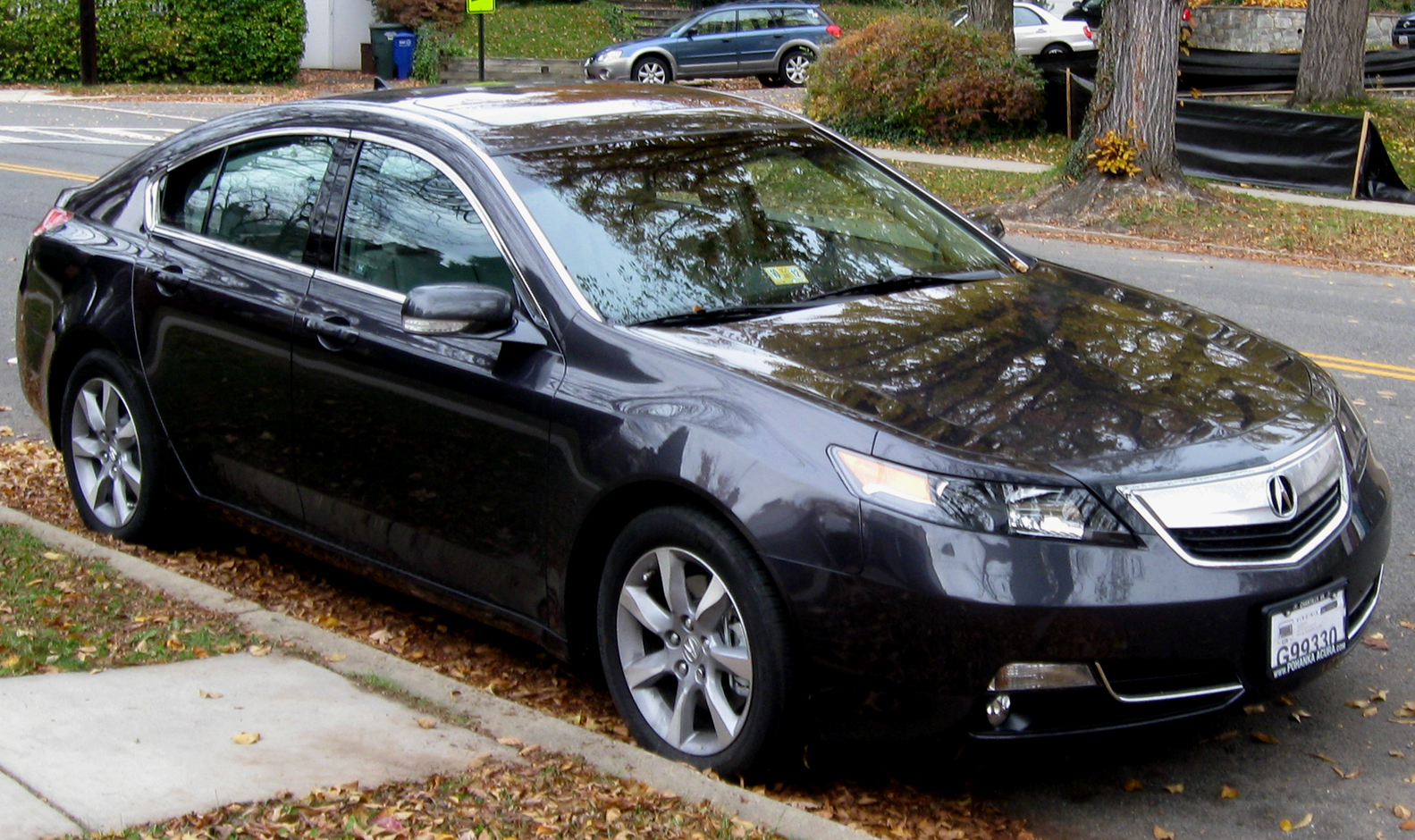 2012 Acura TL photographed in Washington, D.C., USA.